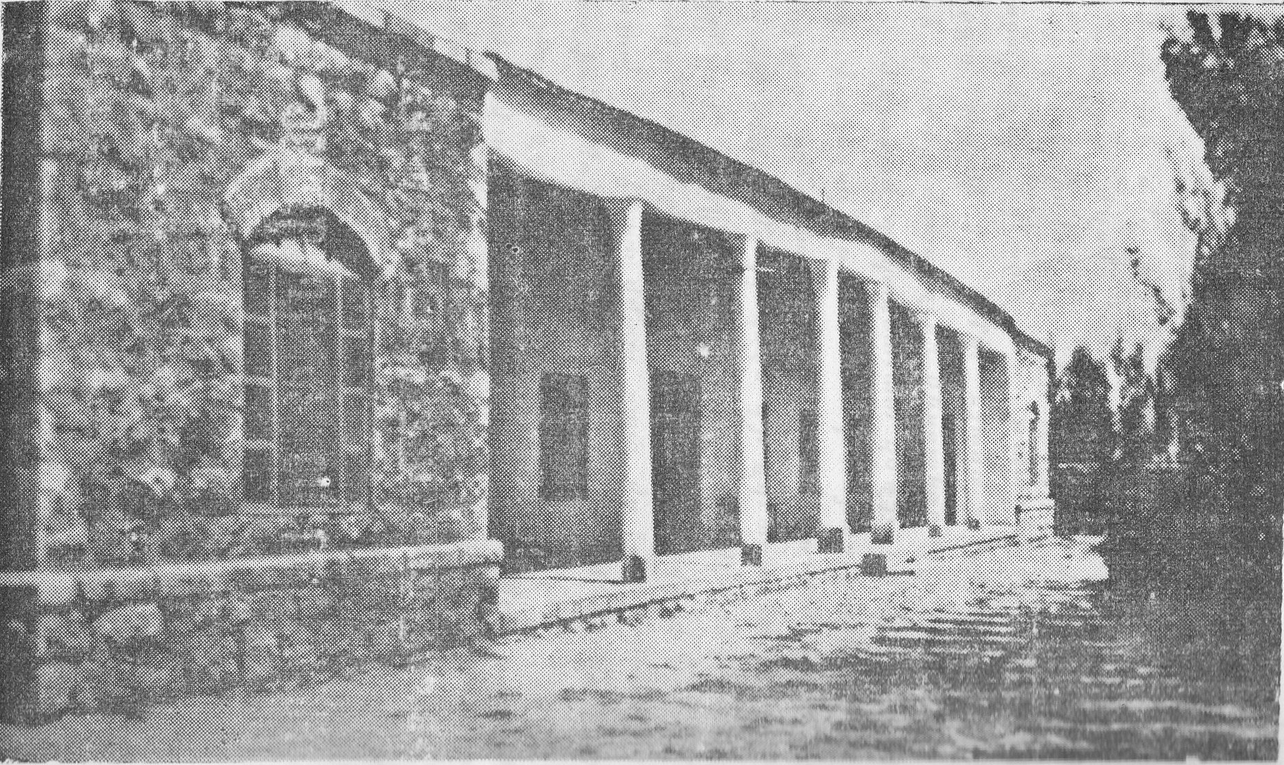 Southern view of the Armenian Hospital in Namagerd village, Peria (Fereydan) county, Iran, built in 1942. The county used to have a large Armenian population. Printed in Perio Hayots Hivandanots@, Modern printing house, Tehran, 1953.